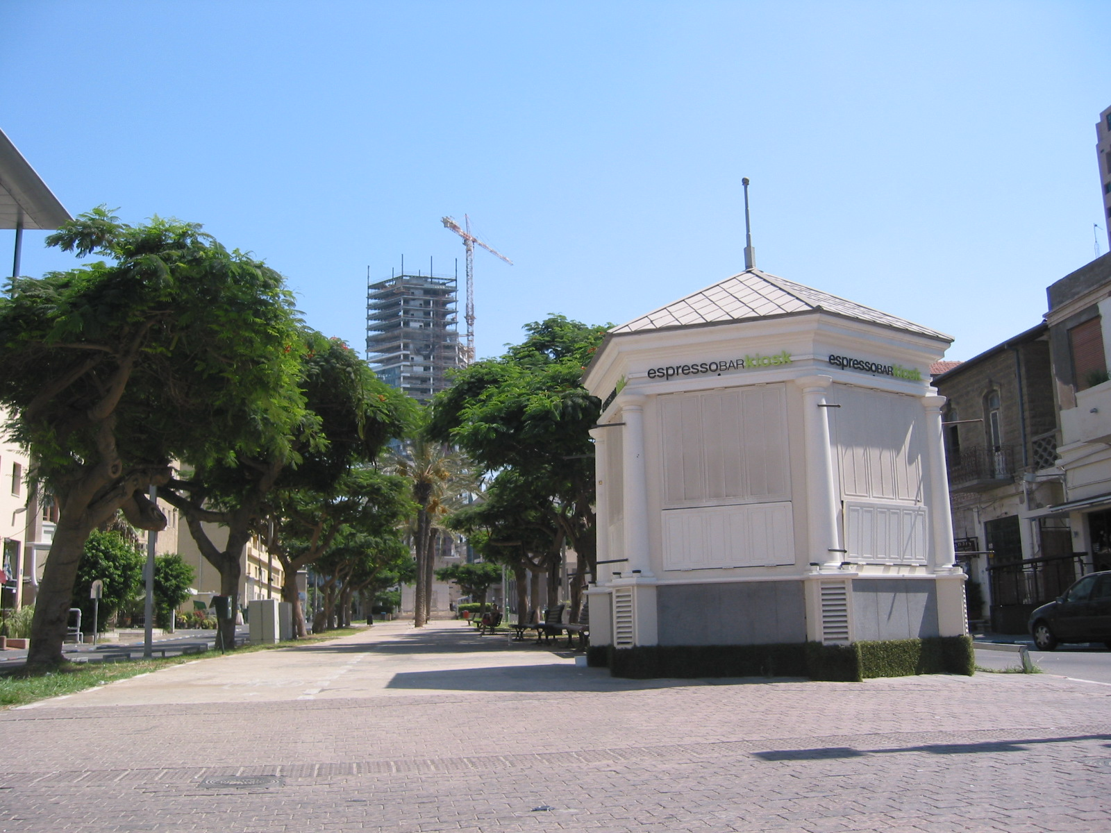 Rothschild Boulevard, Tel Aviv